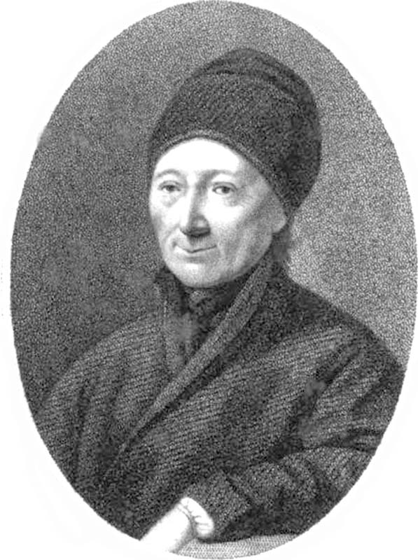 Johann August Nösselt (1734-1807) Protestant theologians from Germany